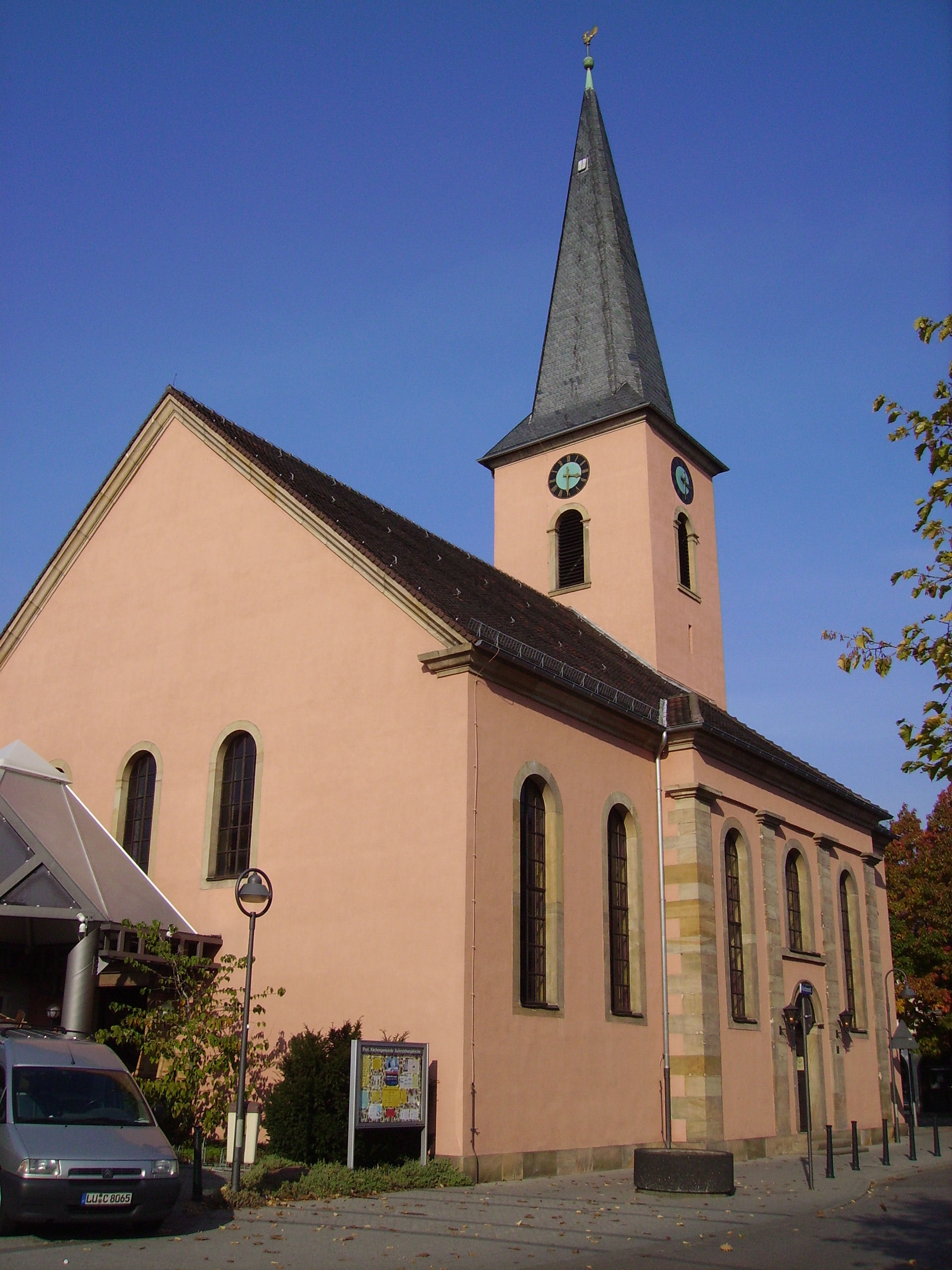 church in Oppau, part of Ludwigshafen, Rhineland-Palatinate (Germany)